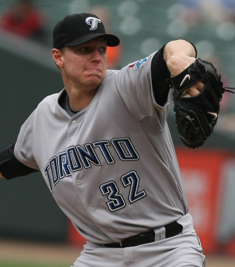 Roy Halladay